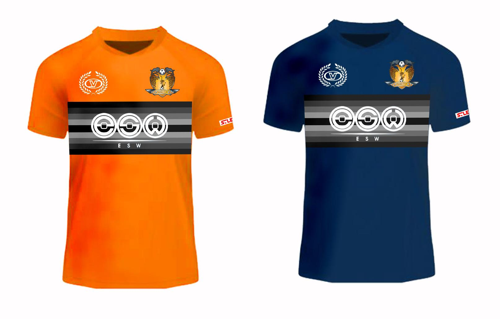 HGFC Jersey 2016